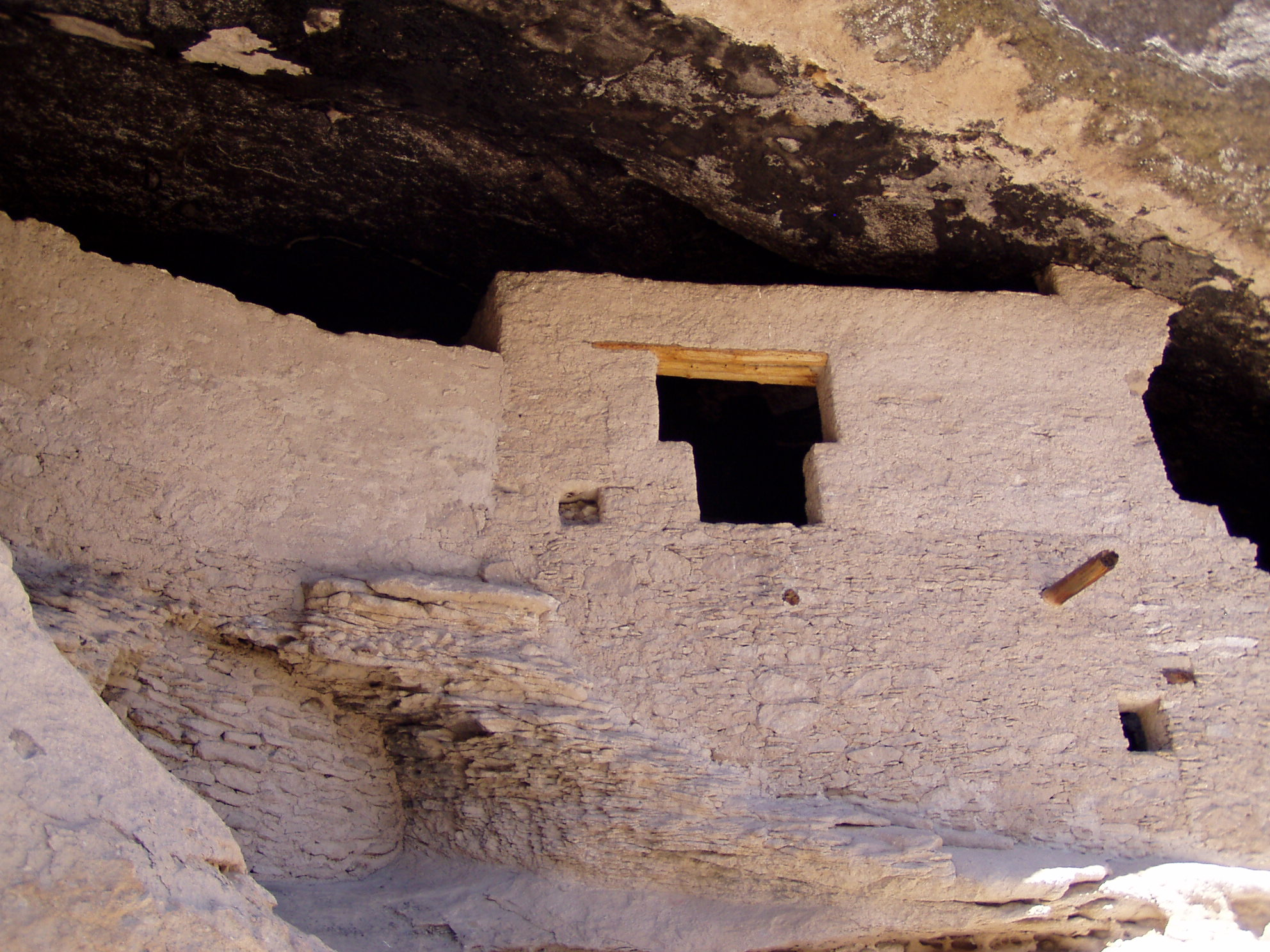 Gila Cliff Dwellings National Monument